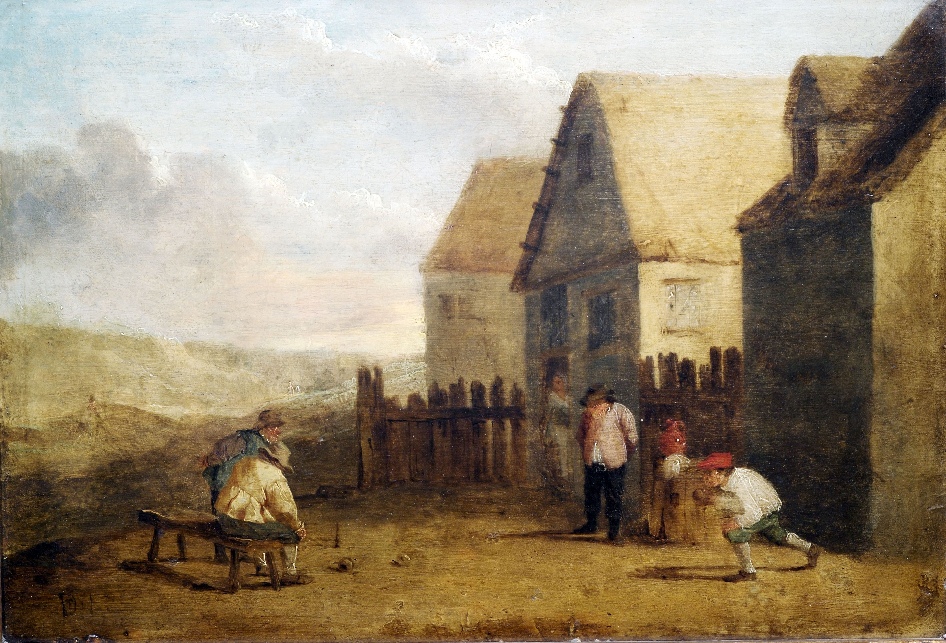 Peasants bowling in front of a tavern. Oil on panel, monogrammed. 24 x 35 cm.